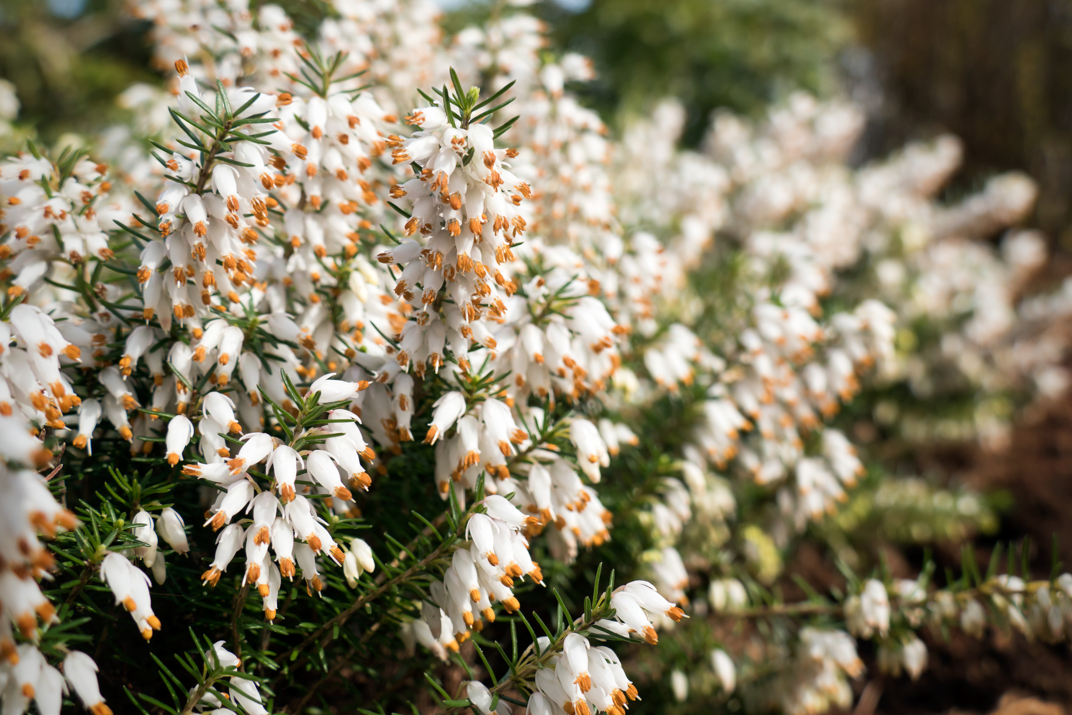 Erica carnea (E. carnea, f.alba), cultivar "Isabell"